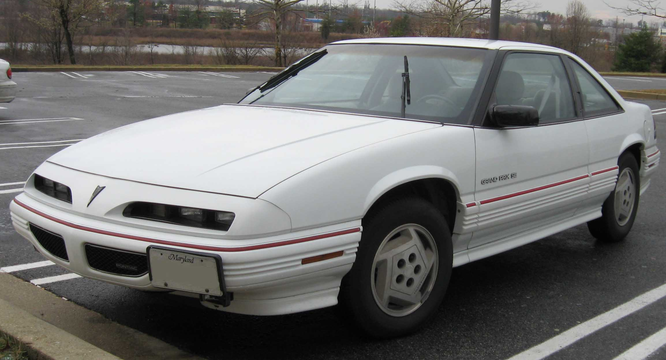 Pontiac Grand Prix photographed in Waldorf, Maryland, USA.